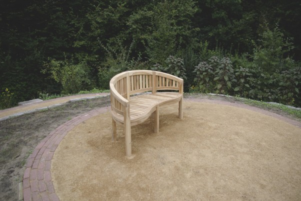 Newly built bench on herbal mound in Ecological garden OSSENBEEMD (Oxenmeadow) in Deurne Netherlands 060907